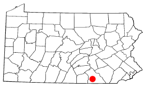 Map of U.S. state of Pennsylvania with a dot on Hanover, Pennsylvania.